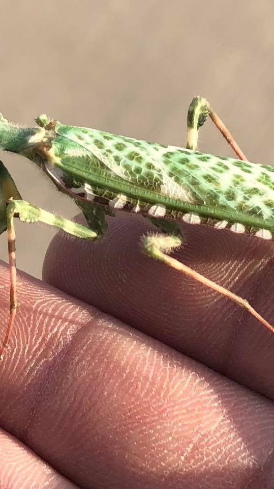 Blepharopsis mendica found in Saudi Arabia displaying legs and body